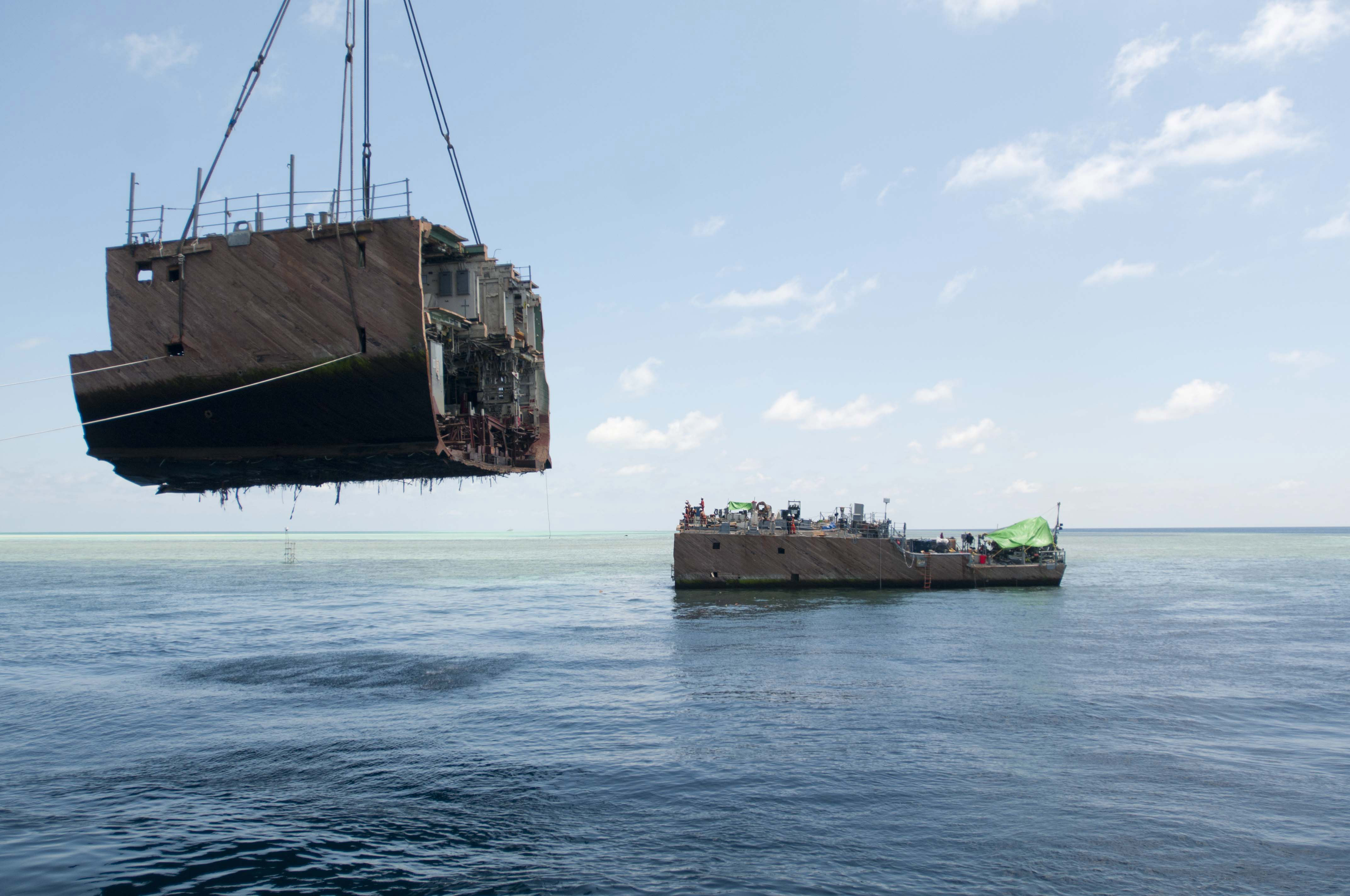 SULU SEA, Philippines (March 27, 2013) - The U.S. Navy contracted crane vessel M/V Jascon 25 removes a hull section from the mine countermeasure ship Ex-Guardian (MCM 5), which ran aground on the Tubbataha Reef Jan. 17. The U.S. Navy and contracted salvage teams continue damage assessments and the removal of equipment and parts to prepare the grounded ship to be safely dismantled and removed from Tubbataha Reef. The U.S. Navy continues to work in close cooperation with the Philippine authorities to safely dismantle Guardian from the reef while minimizing environmental effects.